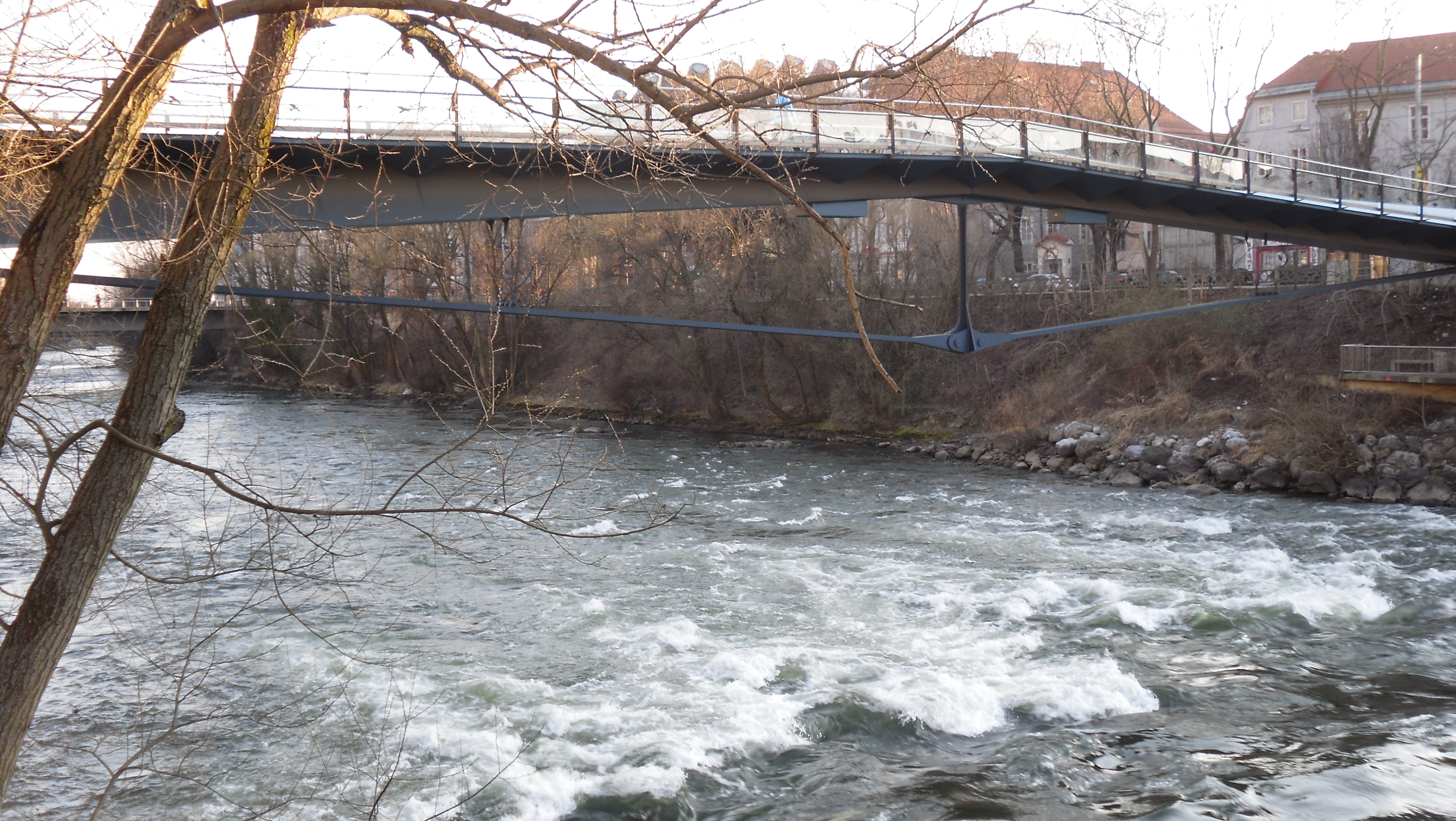 Mura in Graz